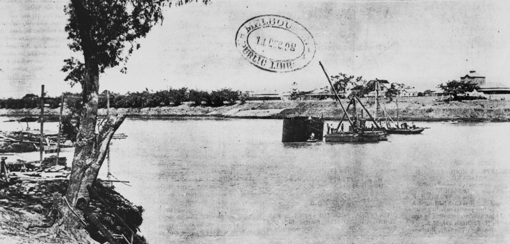 Construction of the Alexandra Railway Bridge at Rockhampton, 1898 Boats moored in mid-stream of the Fitzroy River, Rockhampton.